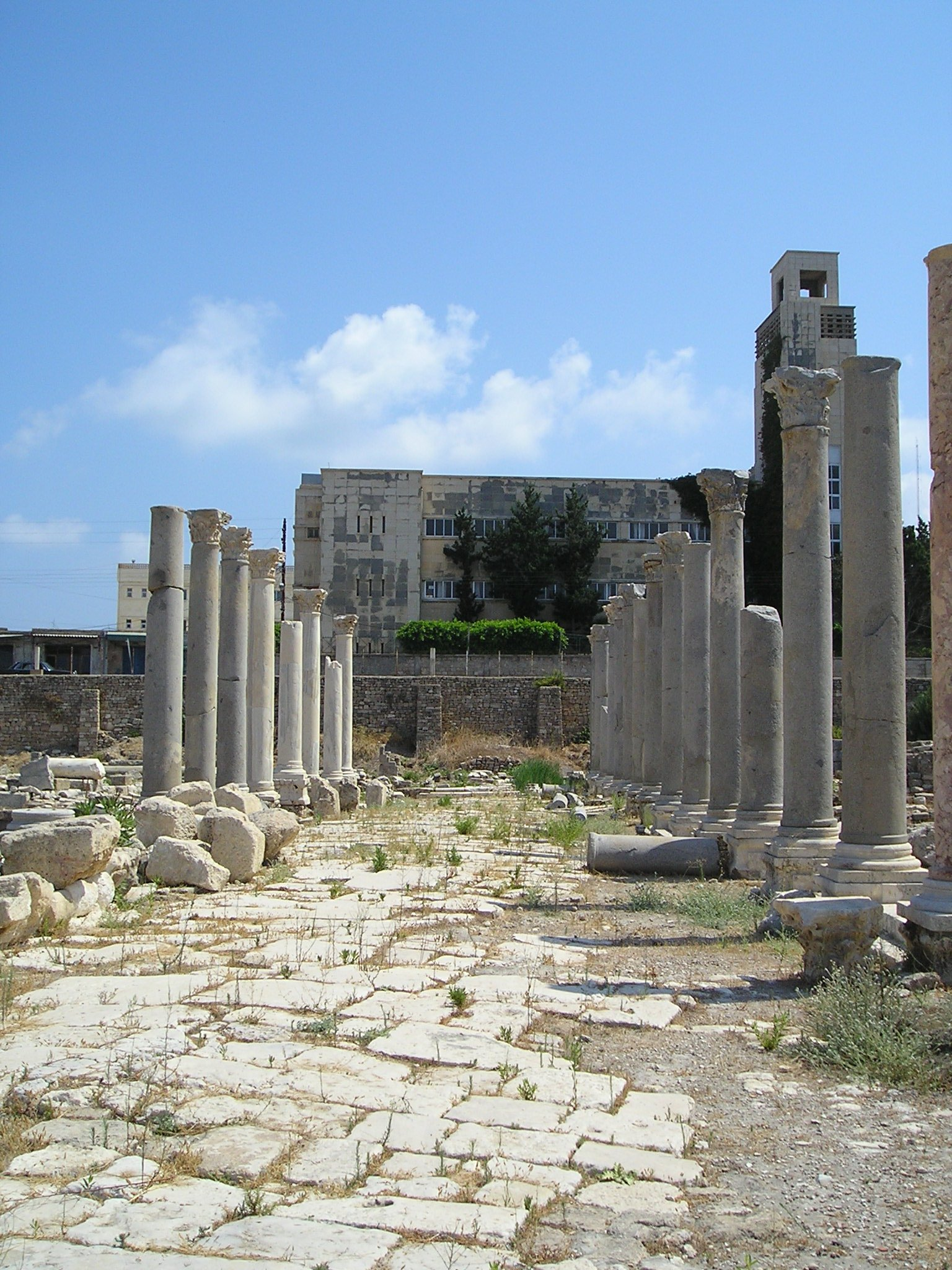 Tyre, Lebanon - Roman Agora (believed to be) at Al Mina excavation area